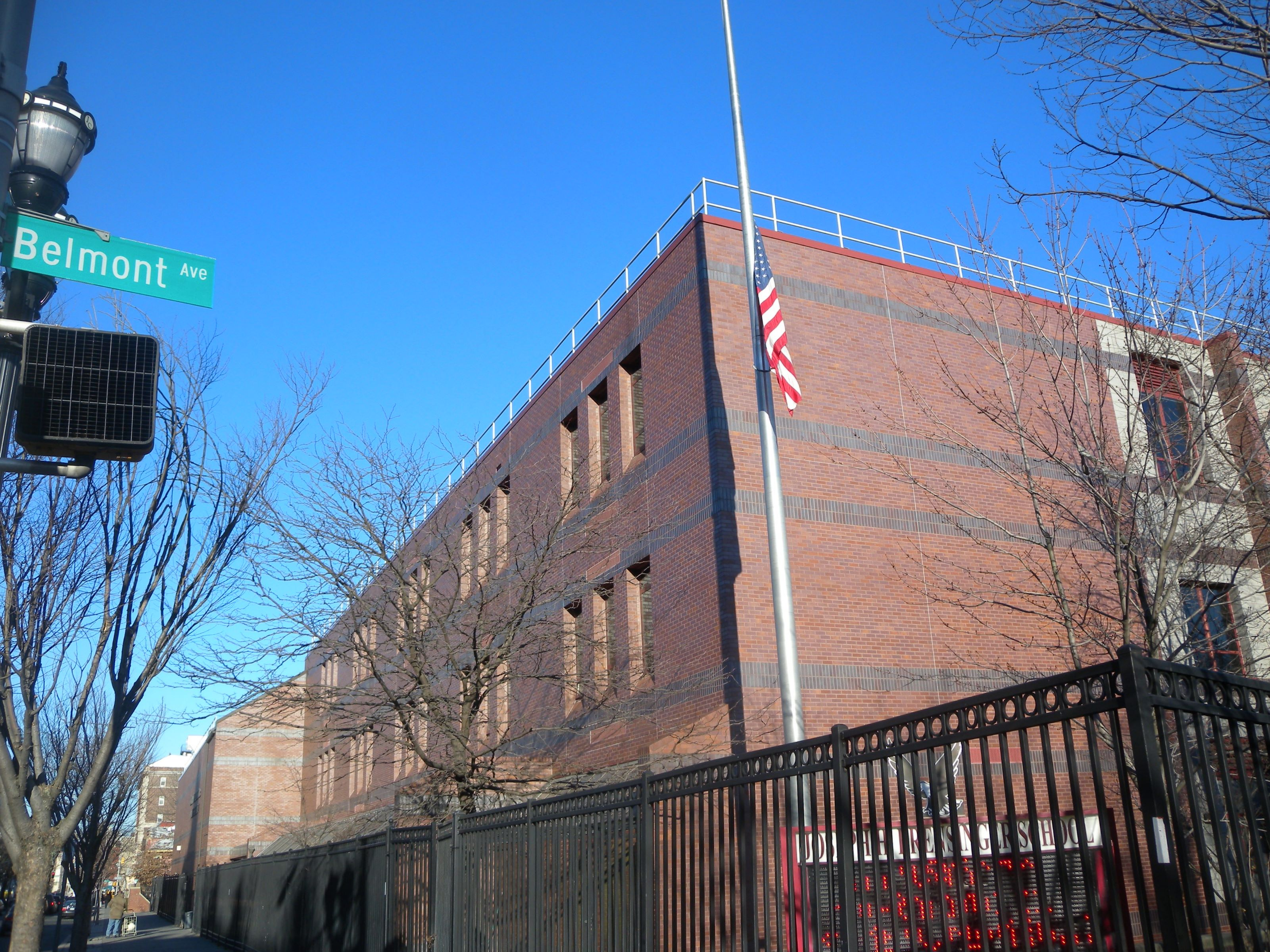 Looking northeast at school on Belmont and Bergen Avenues on a sunny afternoon.